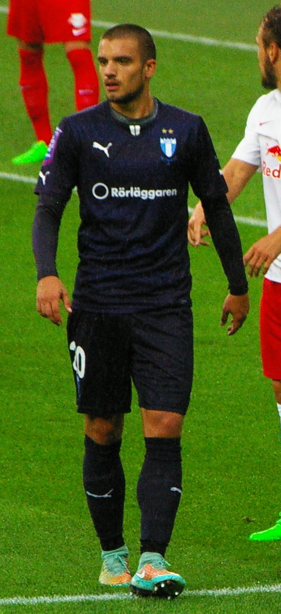 CL qualifing match 3rd round 1st leg